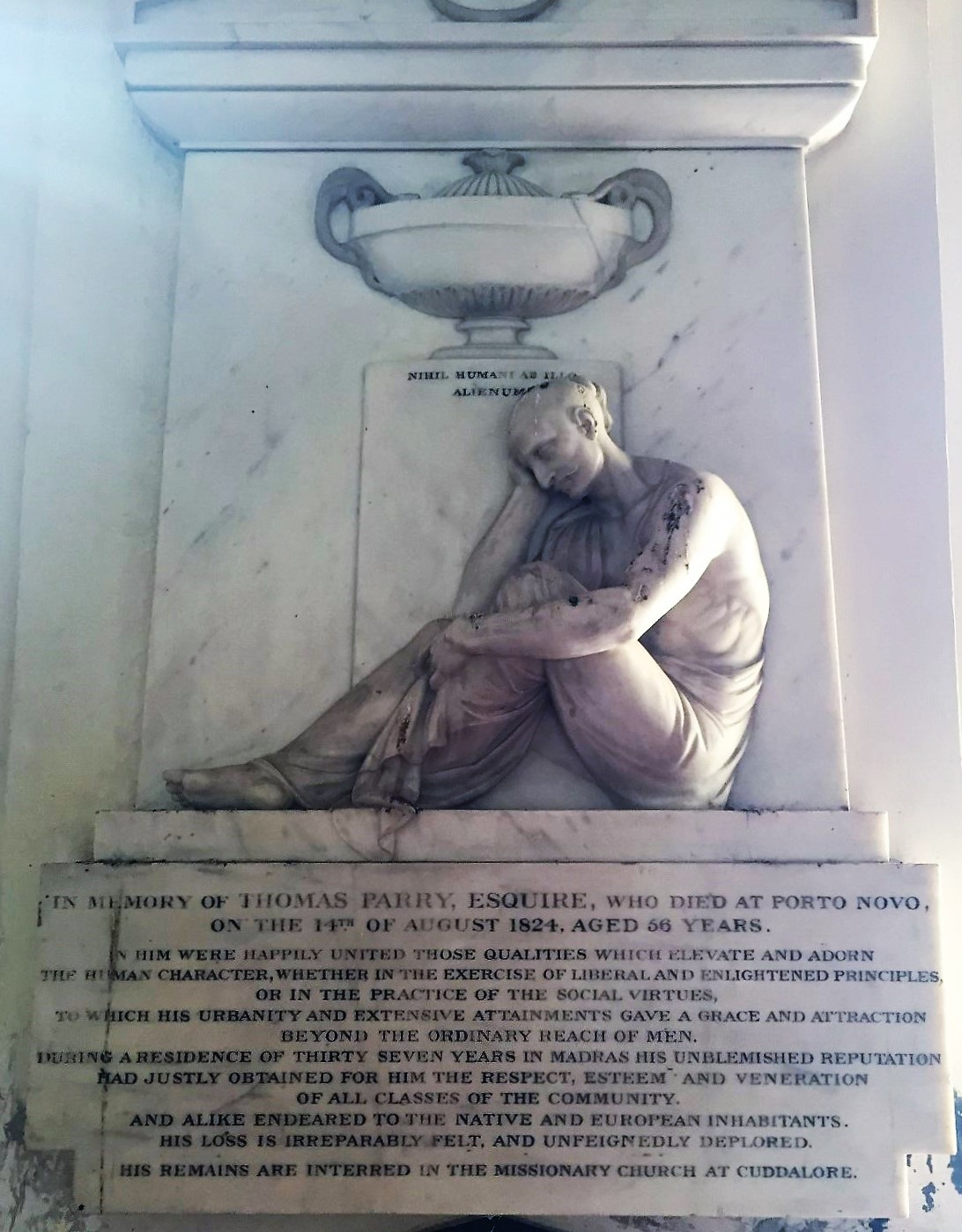 Memorial to Thomas Parry, St. George's Cathedral, Madras